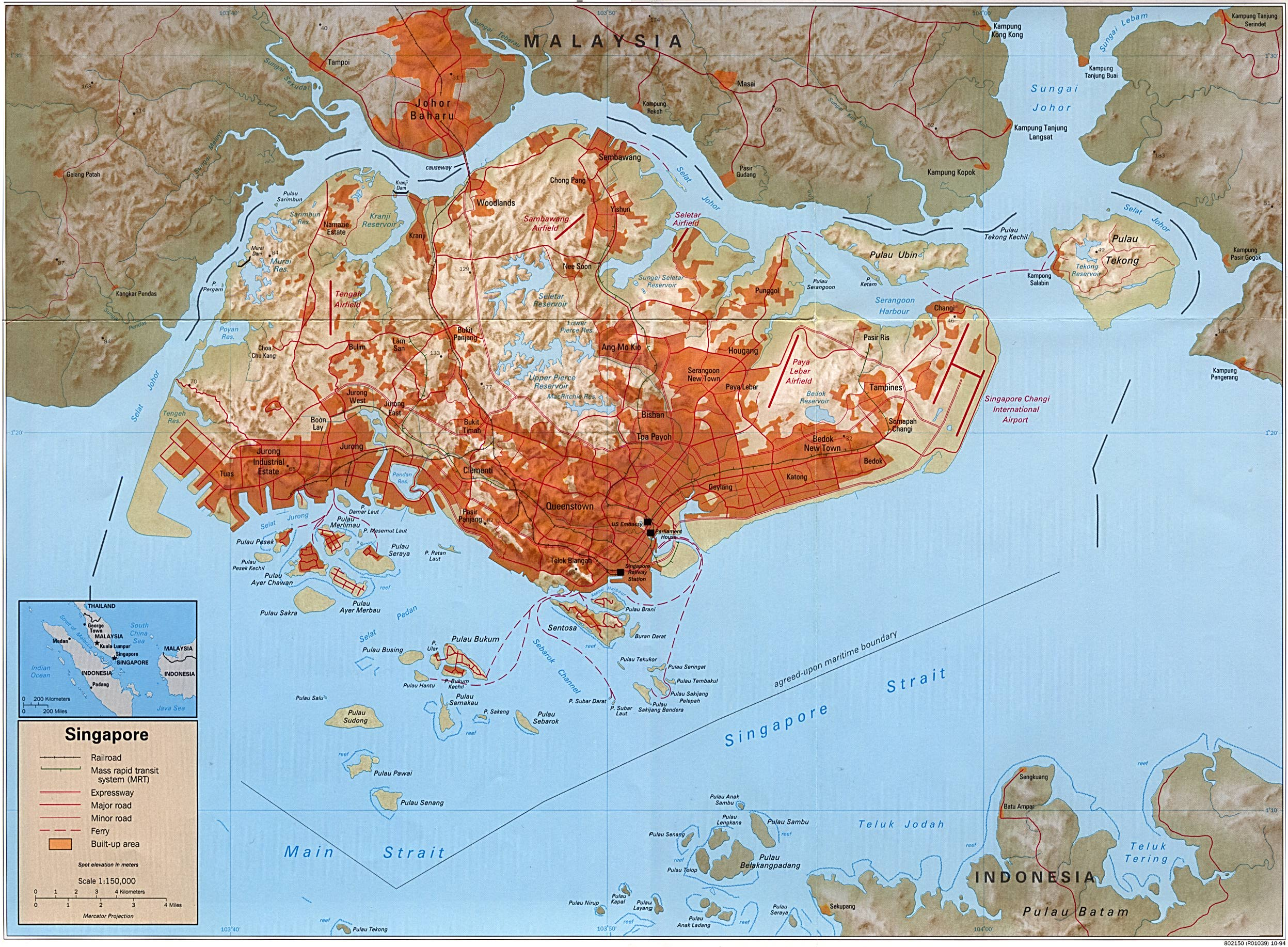 Singapore (Shaded Relief) original scale 1:150,000 CIA 1994